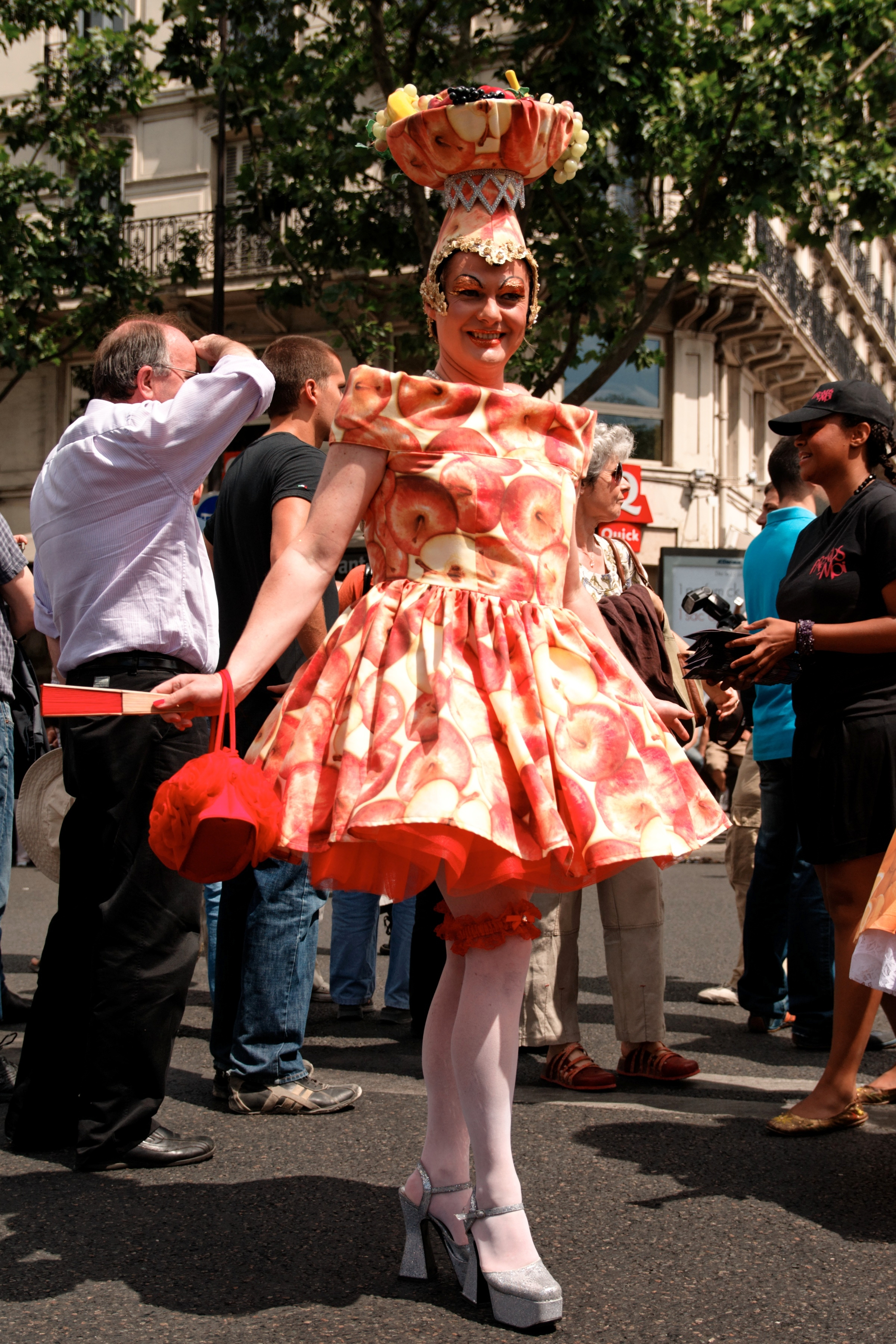 A drag queen at the 2008 Gay Pride in Paris.